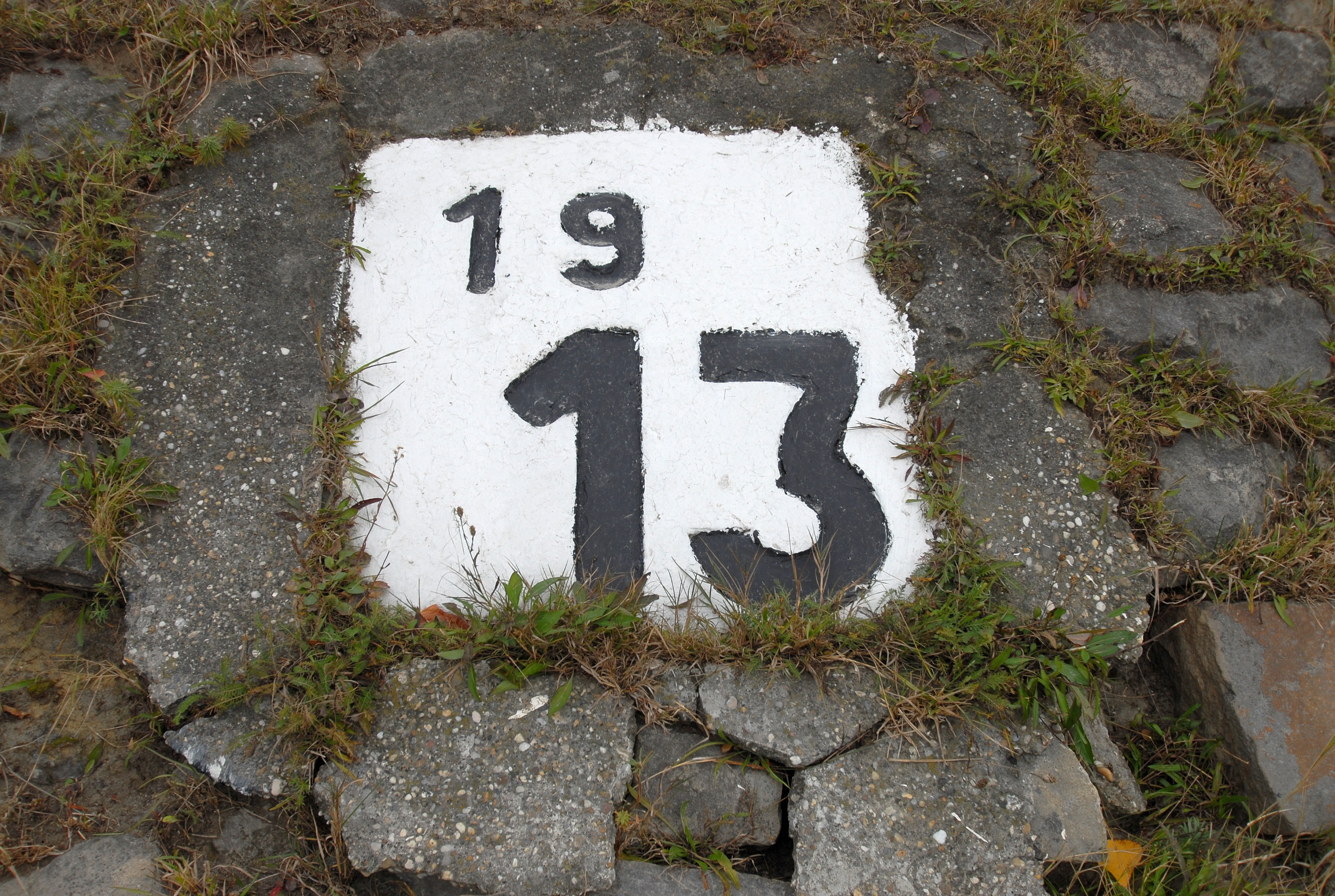 Milestone of the river Danube in Vienna, Austria